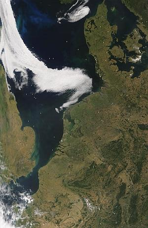 Copyright MODIS NASA